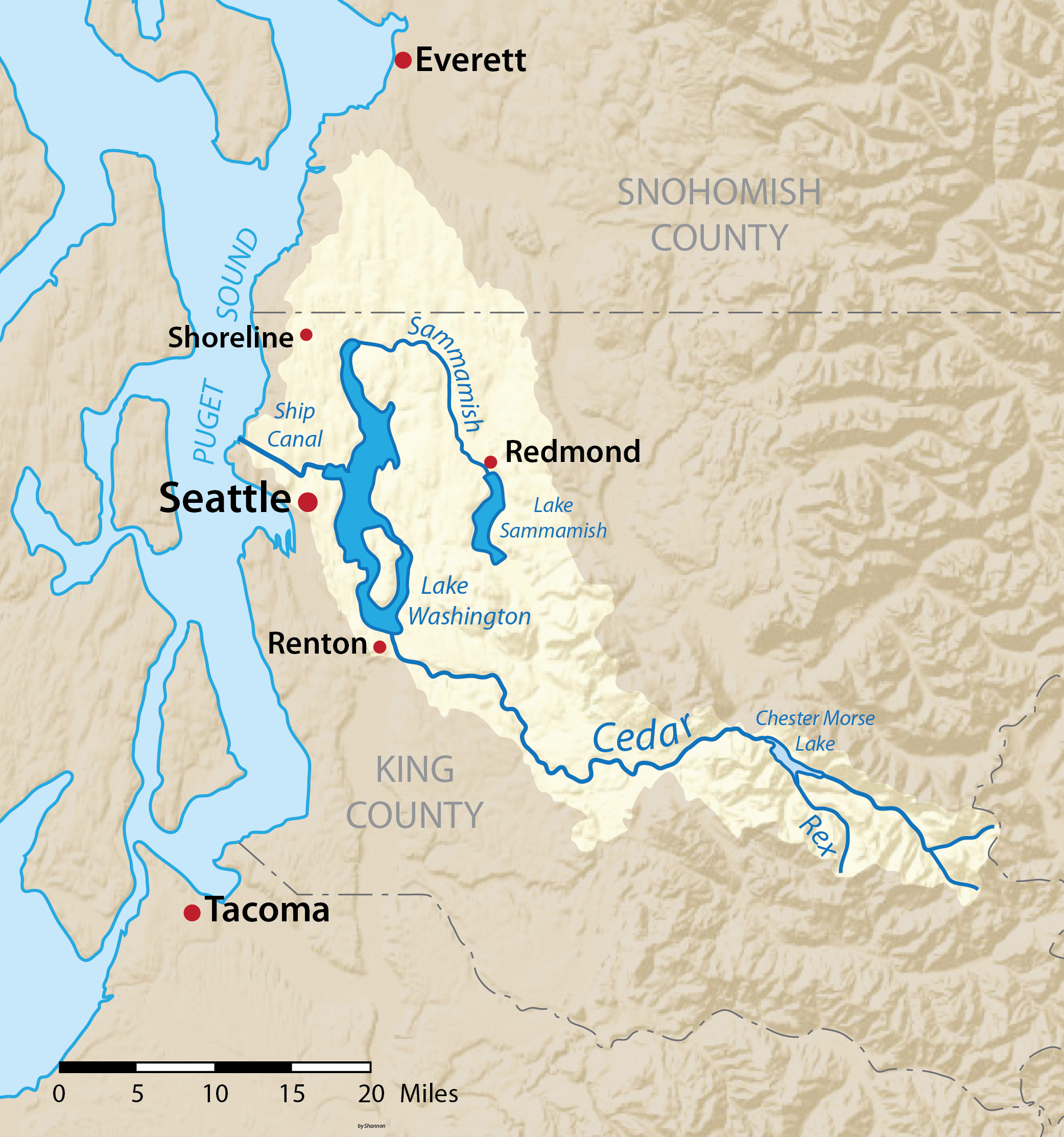 Map of the Lake Washington watershed in Washington, USA including the Cedar and Sammamish Rivers. Made using USGS National Map data.